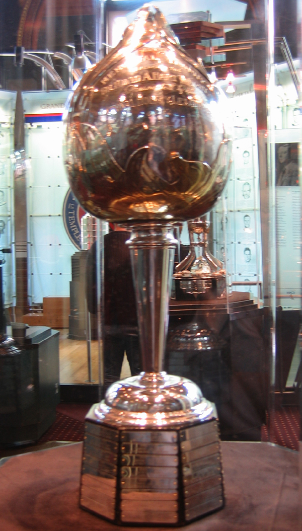 Hart Memorial Trophy on display at the Hockey Hall of Fame in Toronto. The trophy is awarded annually by the NHL to the season's most valuable player. Taken by Kmf164 on November 19, 2005.